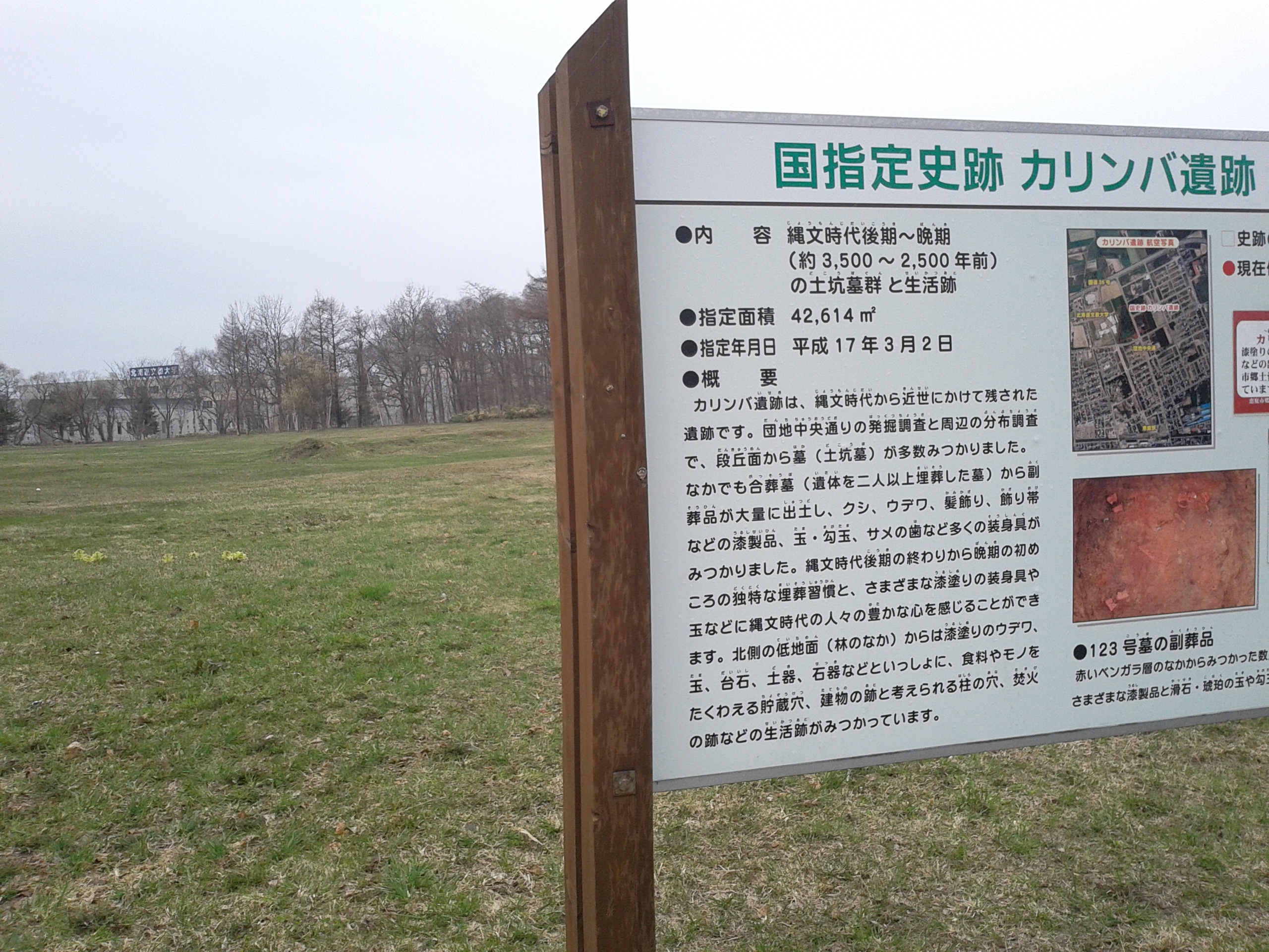 Original site of the Karinba Ruins in Eniwa, Hokkaido. (with information sign)